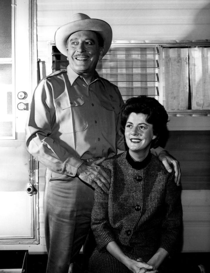 Photo of Leon Ames and Florence MacMichael as Colonel Gordon and Winnie Kirkwood from the television program Mister Ed. The fictional couple became the new neighbors of the Posts and Mister Ed in 1963 and stayed with the program for the next two seasons.